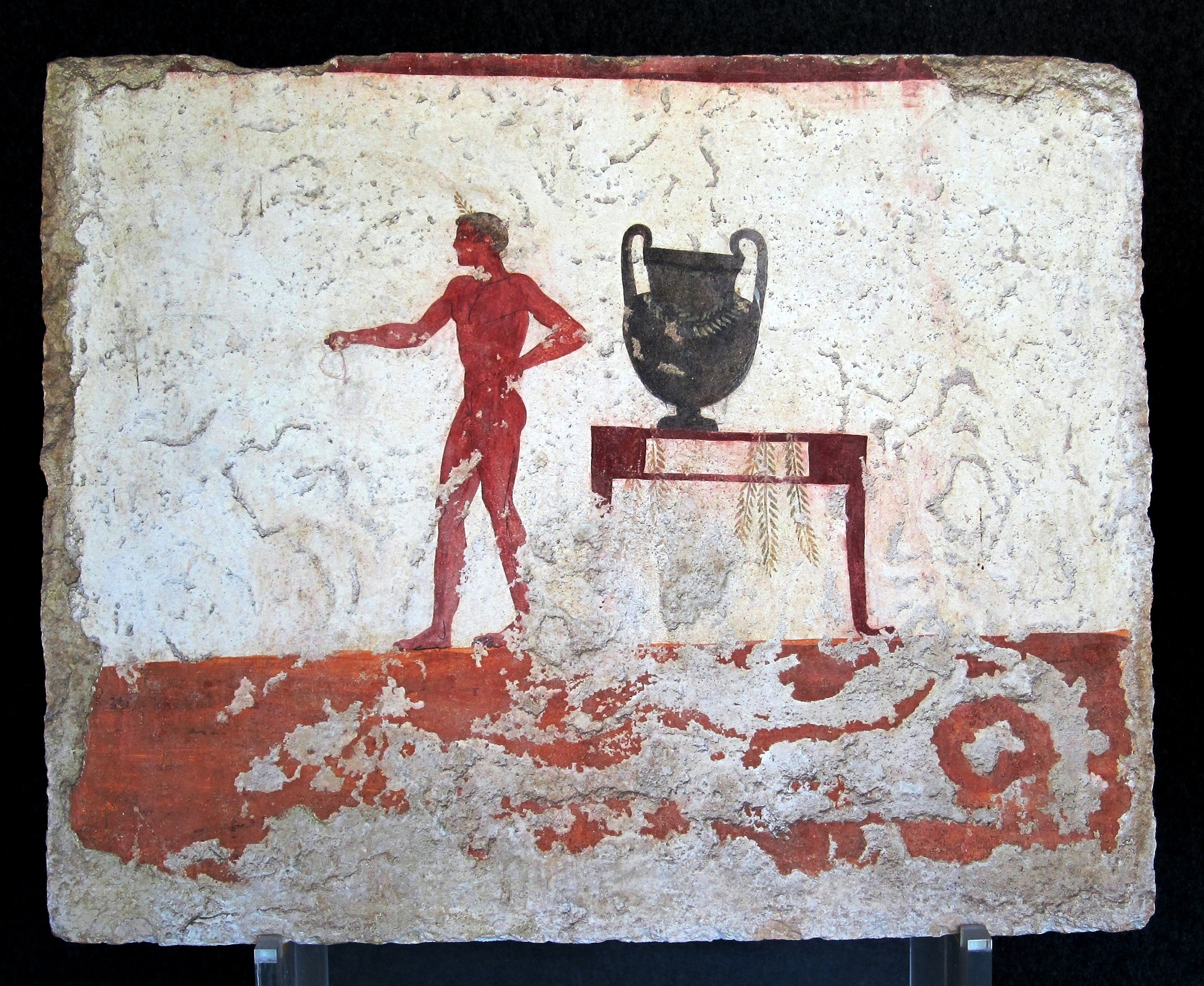 East wall of the Tomb of the diver in Paestum (470-480 BC).